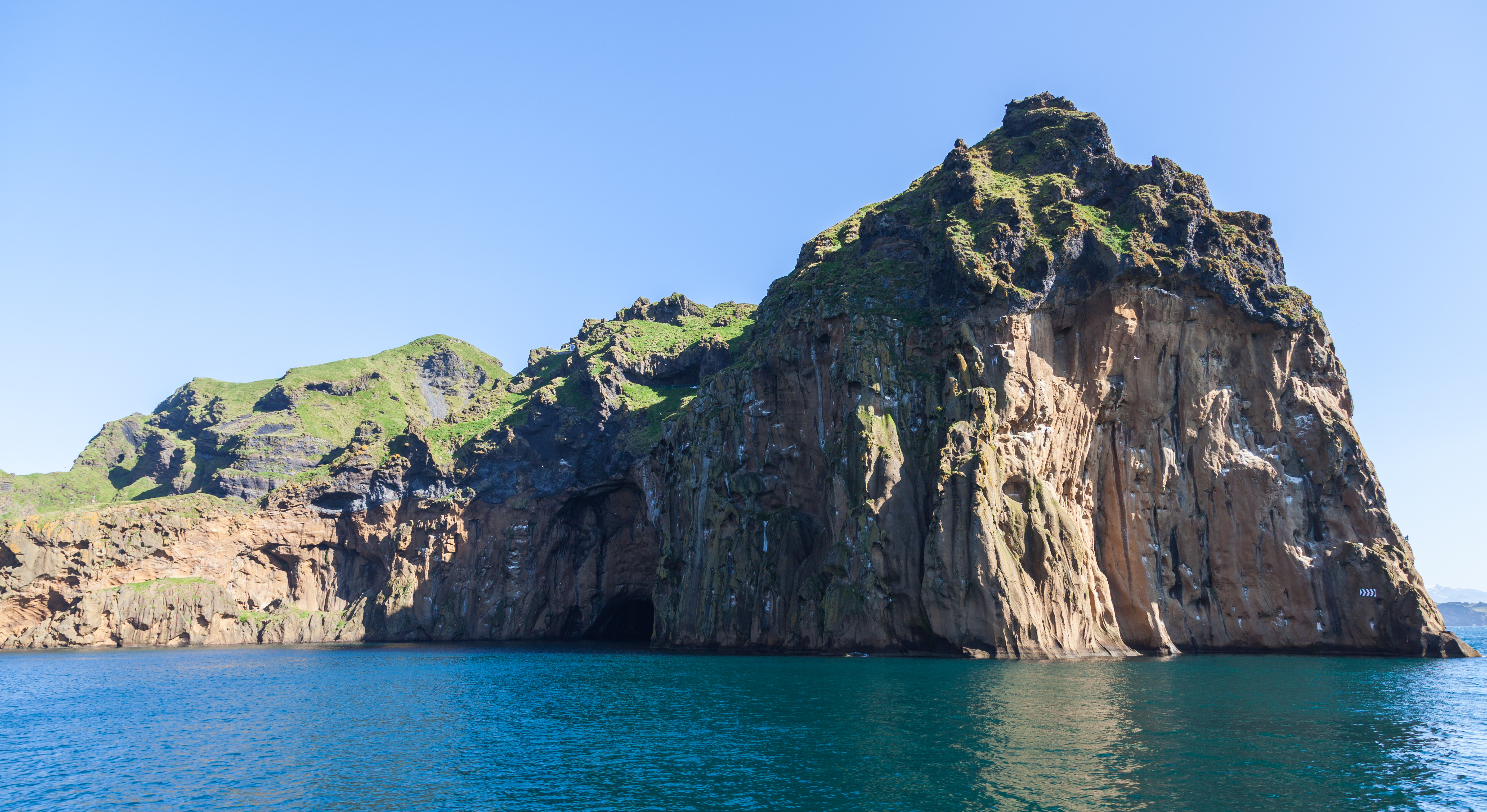 Cliffs of Heimaey, Westman Islands, Suðurland, Iceland